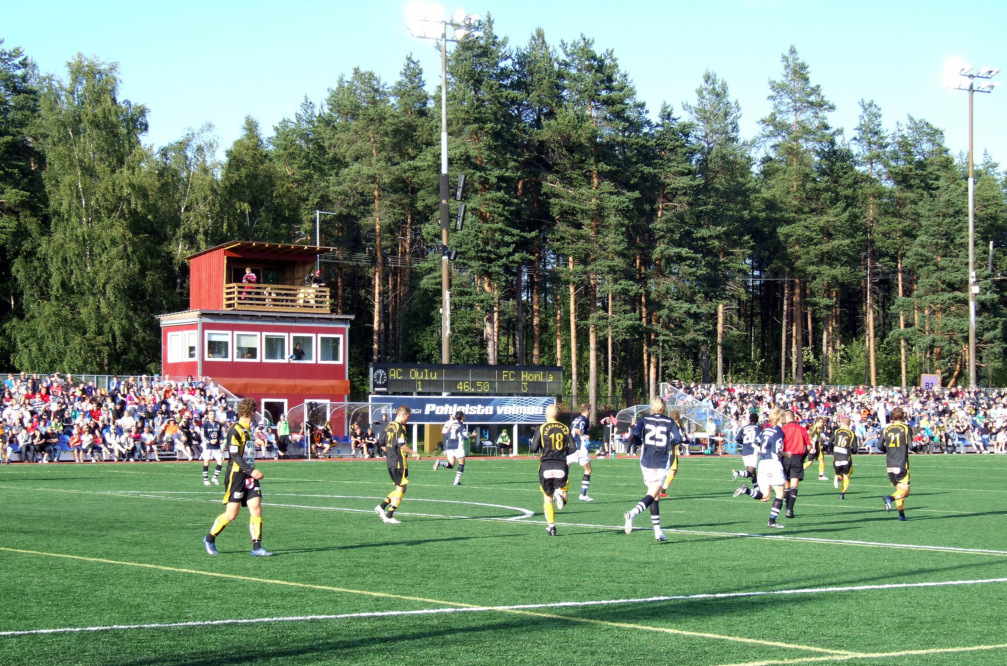 AC Oulu vs FC Honka football game at the Castrén stadium in Välivainio, Oulu.